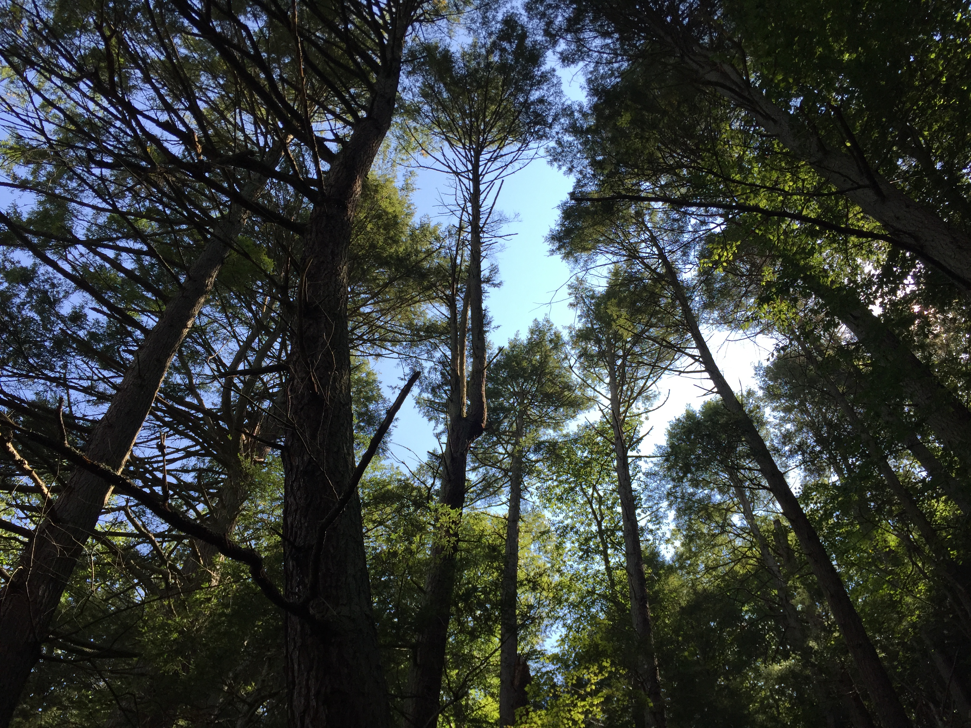 View up into the canopy of a grove of Eastern Hemlocks along the Bull Run-Occoquan Trail between the Yellow Trail and the Red Trail within Hemlock Overlook Regional Park, in southwestern Fairfax County, Virginia